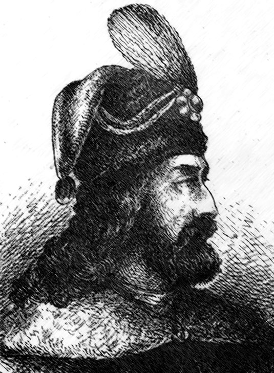 Vlastimir, Prince of the Serbs in the 9th century.